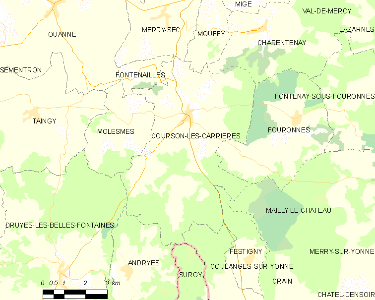 Map of French municipality Courson-les-Carrières